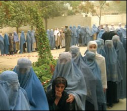 Original caption reads "WOMEN:Voting in Kabul at firstpresidential election in Afghan history,October 2004."